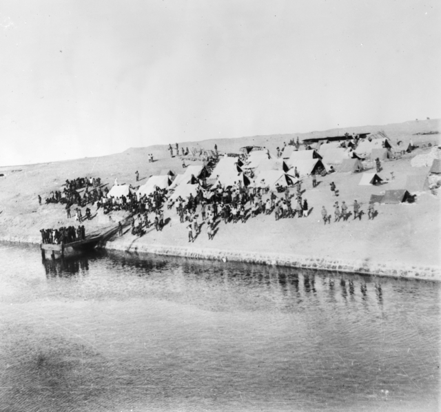 Indian troops at their camp on the banks of the Suez Canal, Egypt. January 1915.